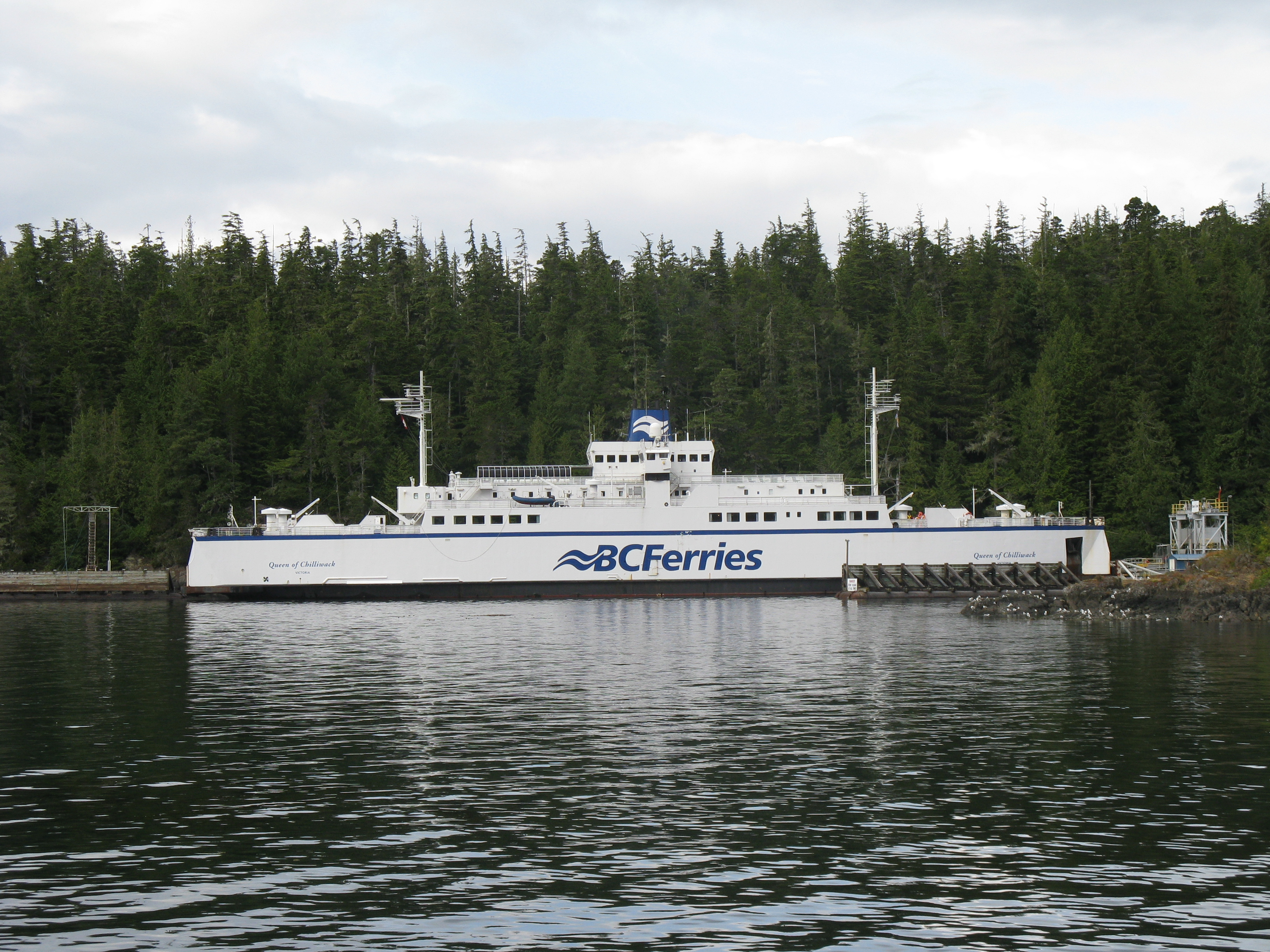 Queen of Chilliwack in berth at Port Hardy